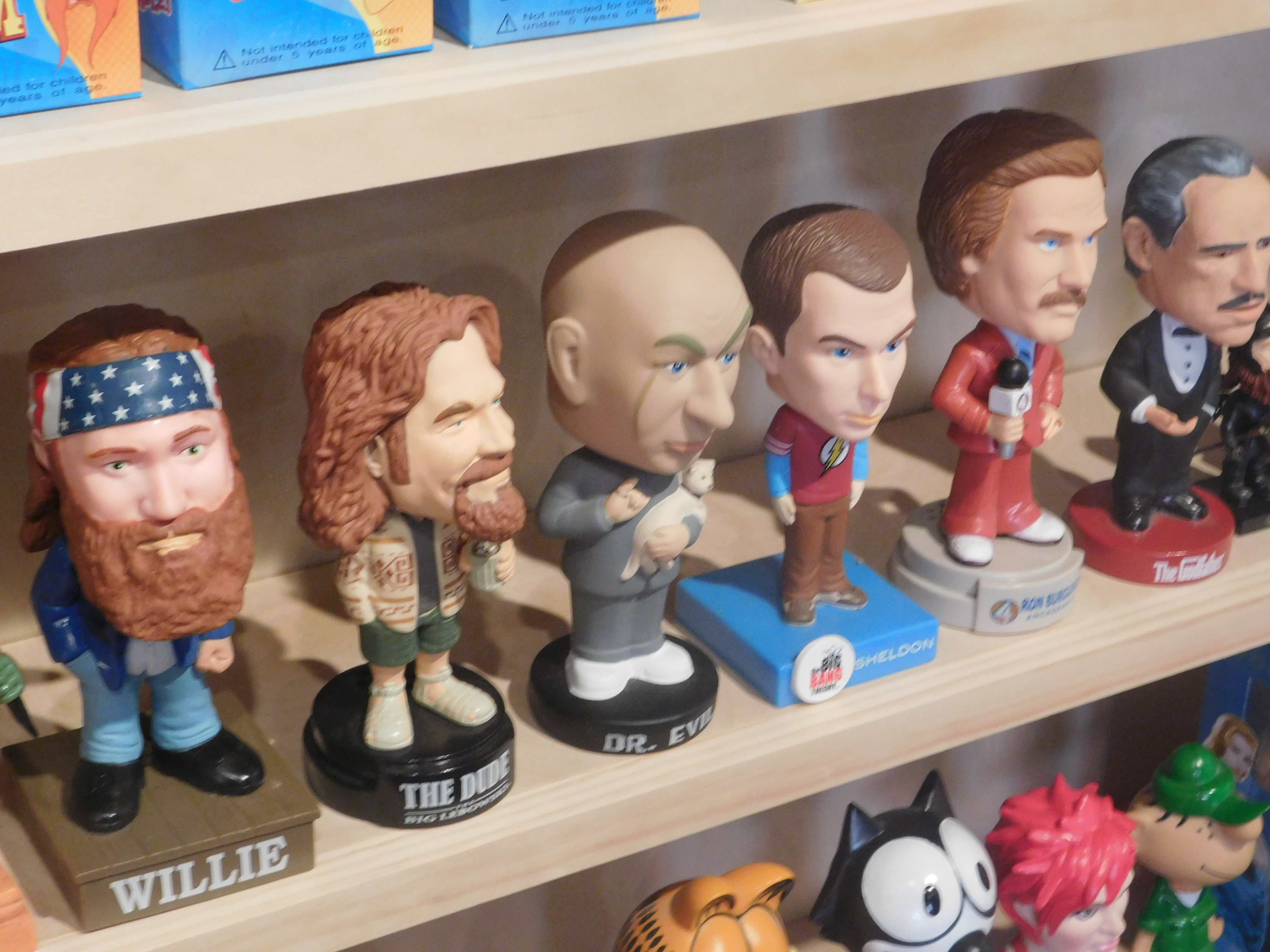 Milwaukee, Wisconsin